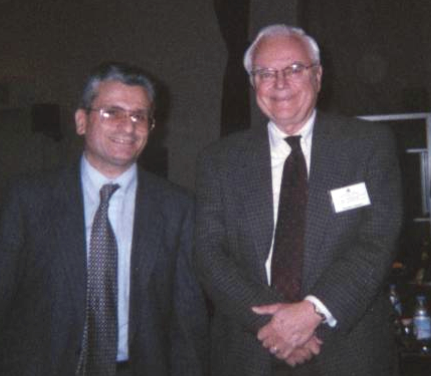 Frank Drake (right) and Roberto Pinotti (left)